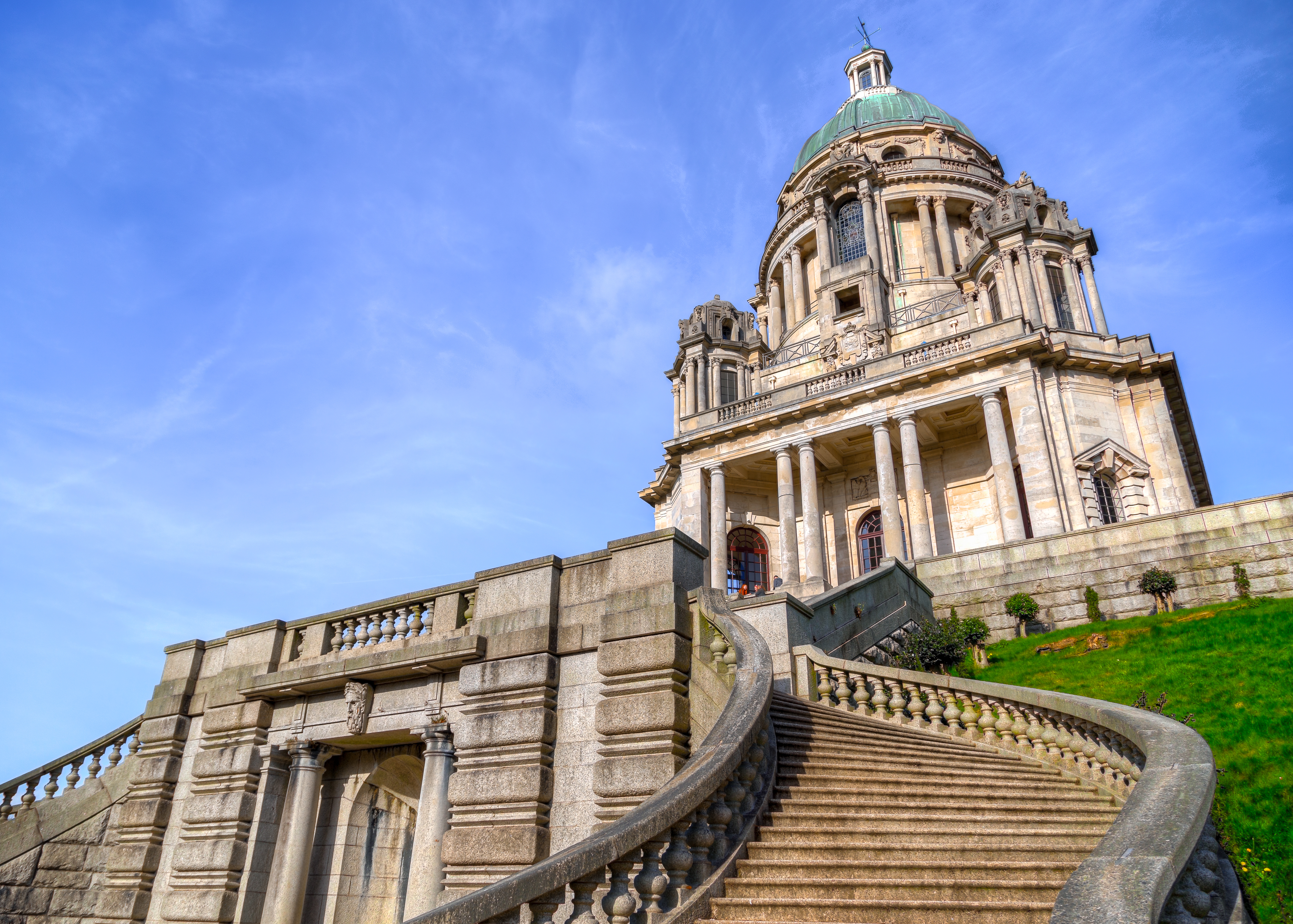 West facing aspect of Ashton Memorial Wikidata has entry Q4806060 with data related to this item.